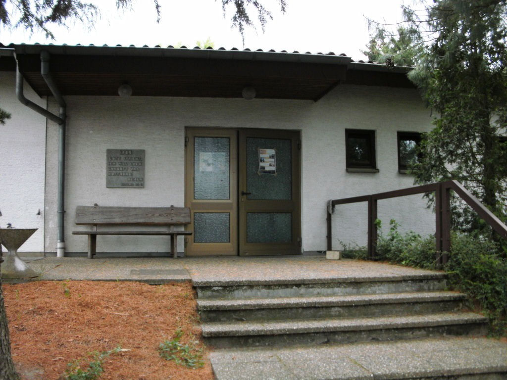 Church hall of the Mennonite church Kohlhof in Limburgerhof-Kohlhof, Rheinland-Pfalz, Deutschland